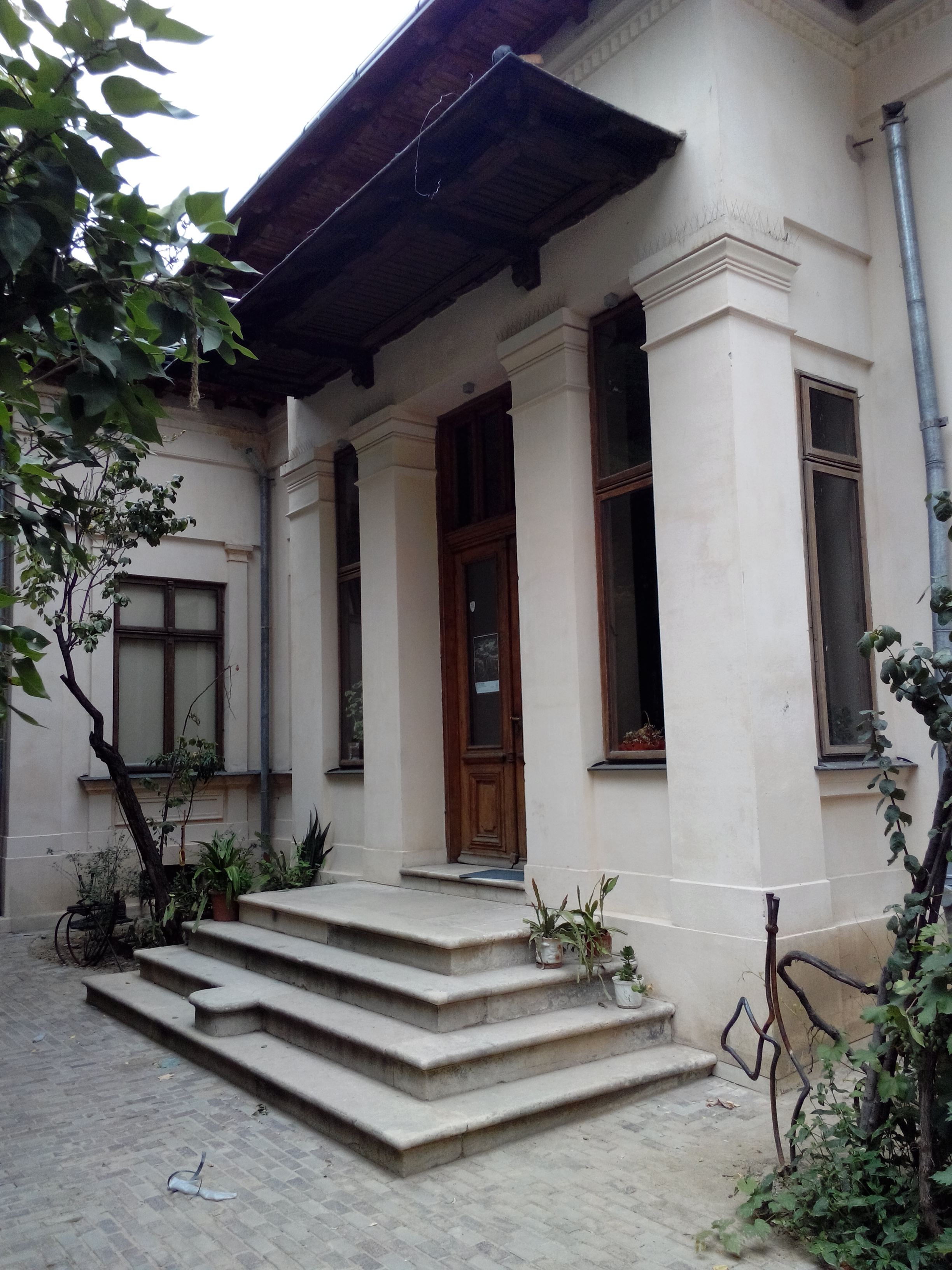 House designed by Ion Mincu